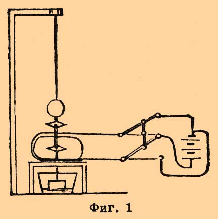 Illustration from Brockhaus and Efron Encyclopedic Dictionary(1890—1907)